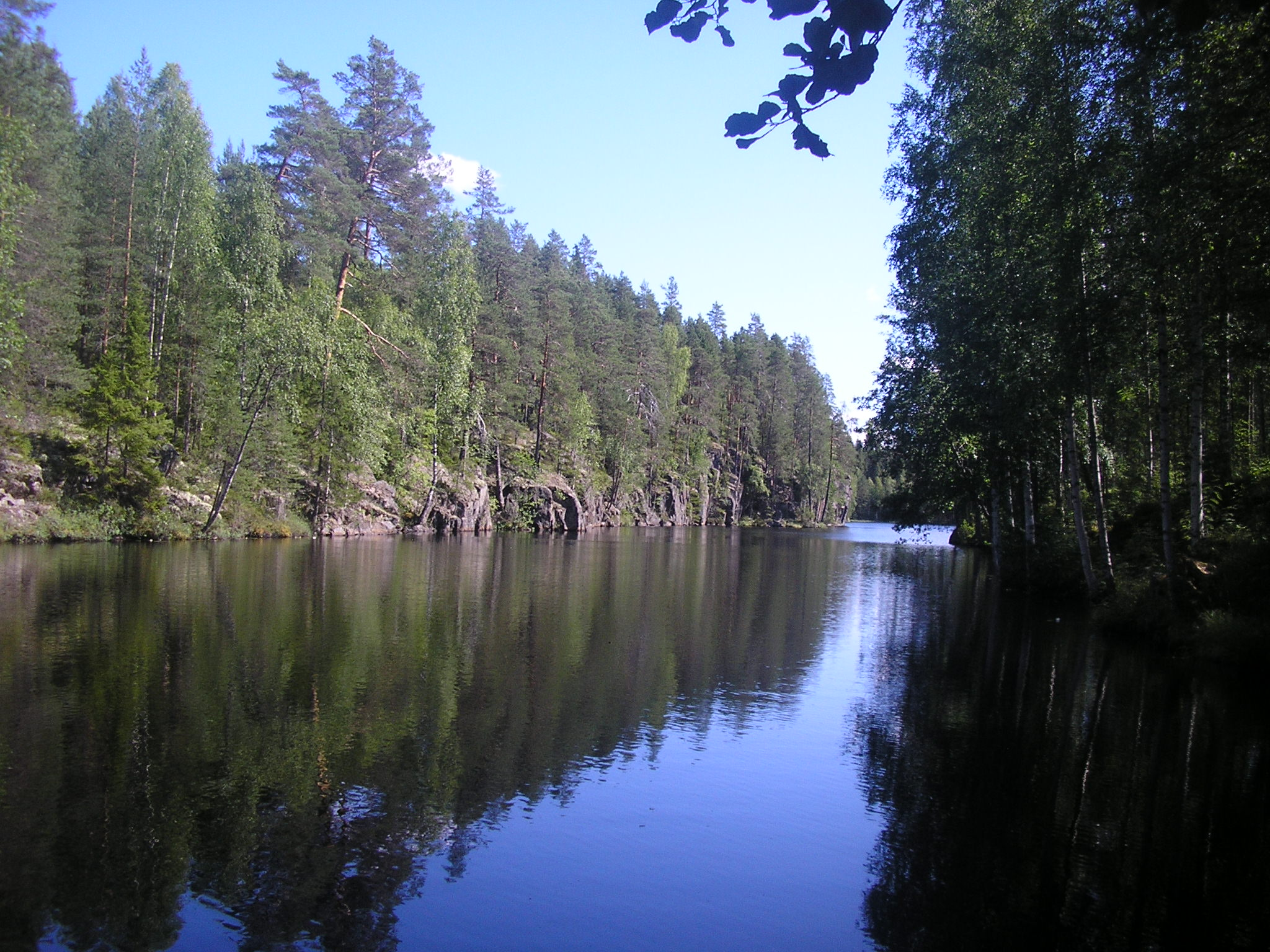 Ravine lake Yläinen-Toriseva in Virrat.